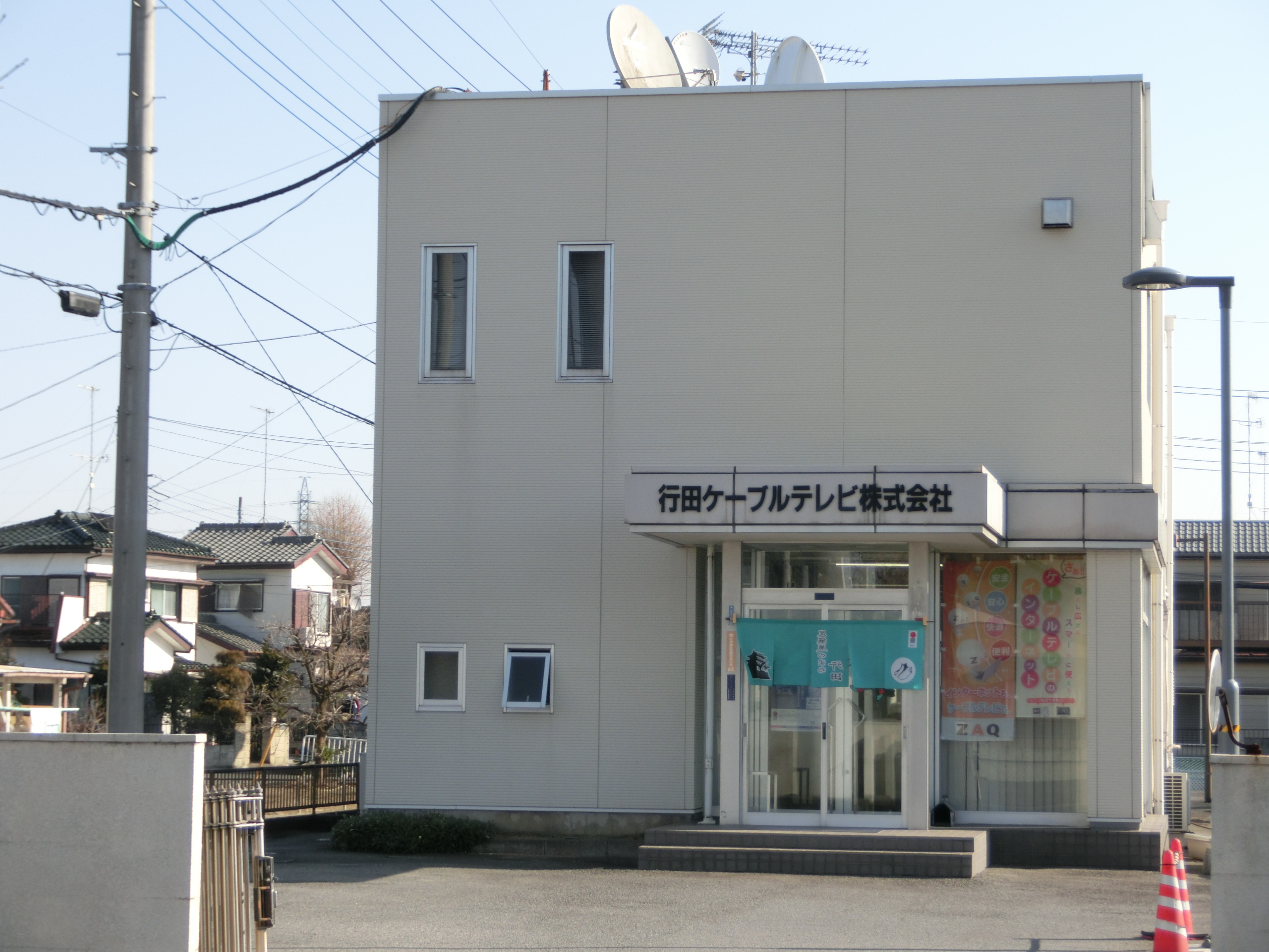 Gyoda Cable TV Head Office